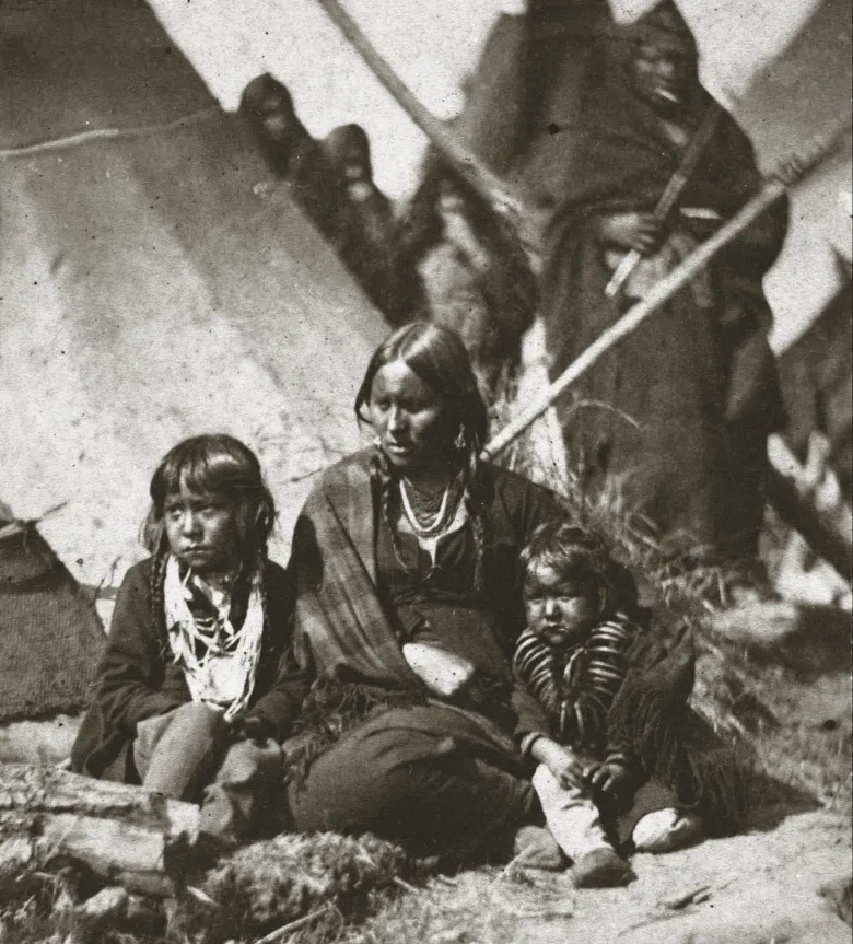 Little Crow's wife and two children at Fort Snelling prison compound. Photograph Collection, Carte-de-visite 1864 Location no. E91.1L r20 Negative no. 36722